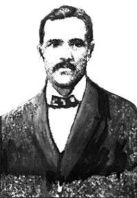 Photograph of Dr. John O. Crosby pictured as President of North Carolina Agricultural and Technical State University, at the time known as the "Agricultural and Mechanical College for the Colored Race".